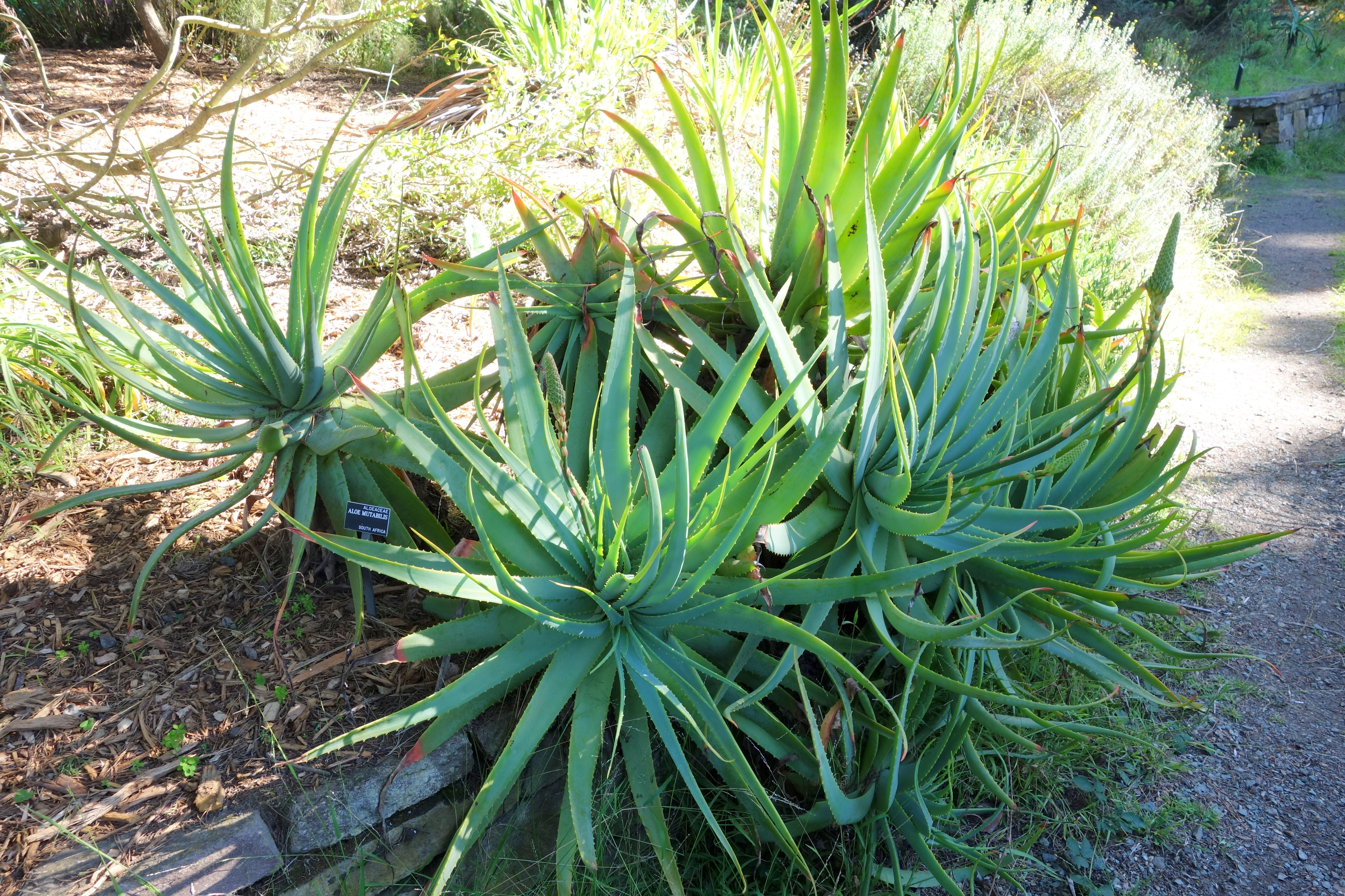 Botanical specimen in the San Francisco Botanical Garden, San Francisco, California, USA.